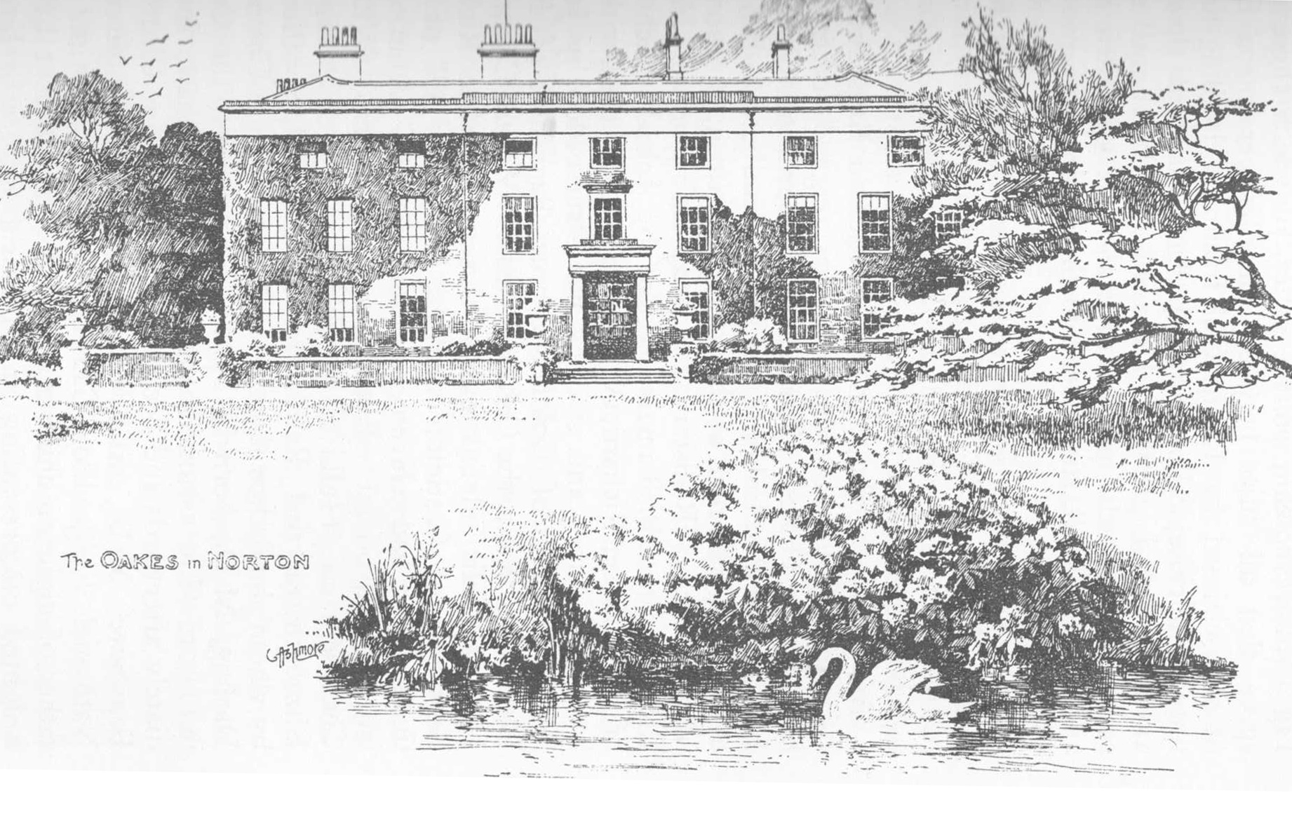 A line drawing of The Oakes in the suburb of Norton in Sheffield, England. Prior to 1910